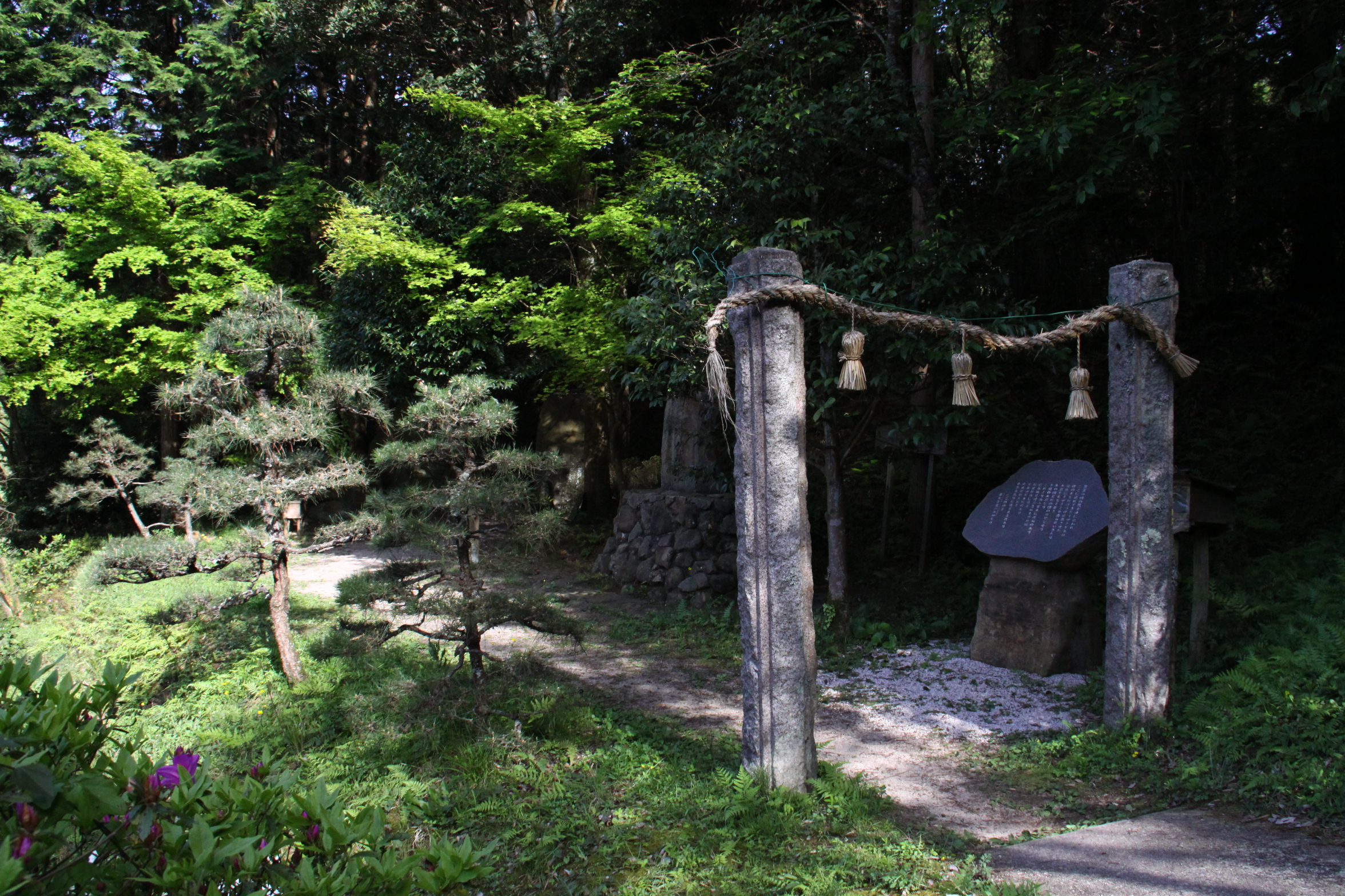 Yomotsu Hirasaka is the slope that leads to Yomi.This is Legend place in Higashiizumo, Shimane, Japan.